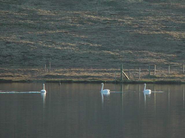 Swans on East Loch of Skaw, Whalsay, Shetland. Swans on east loch of Skaw, Whalsay on New Year's Day 2006